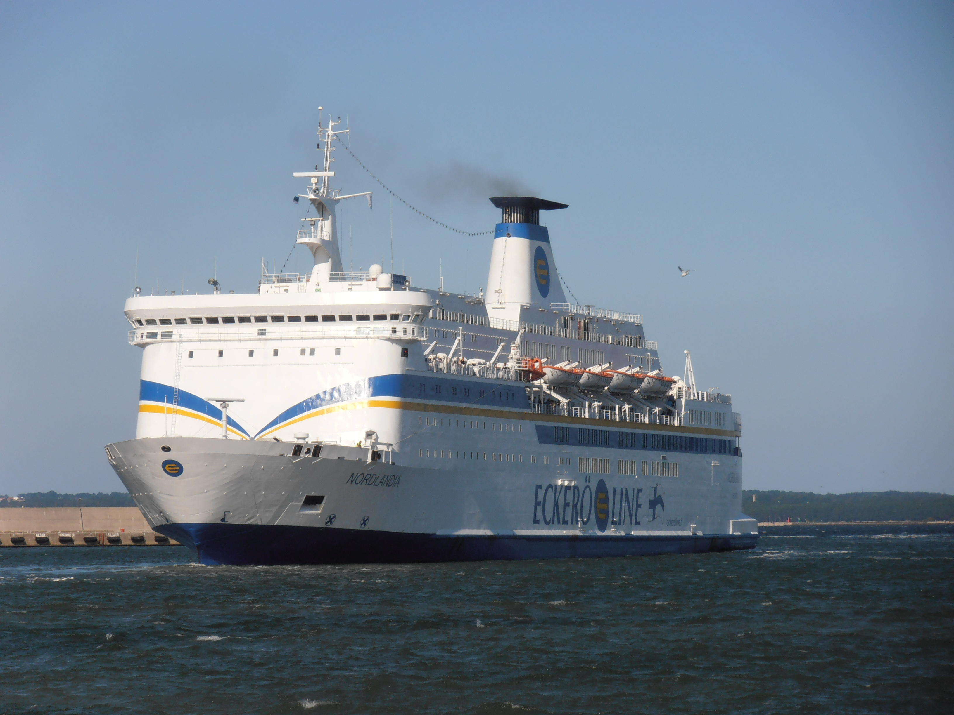 Nordlandia arriving in Tallinn 13 August 2012